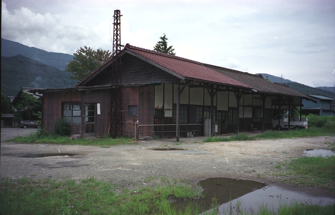 simotuketieki_kitaenatetudou